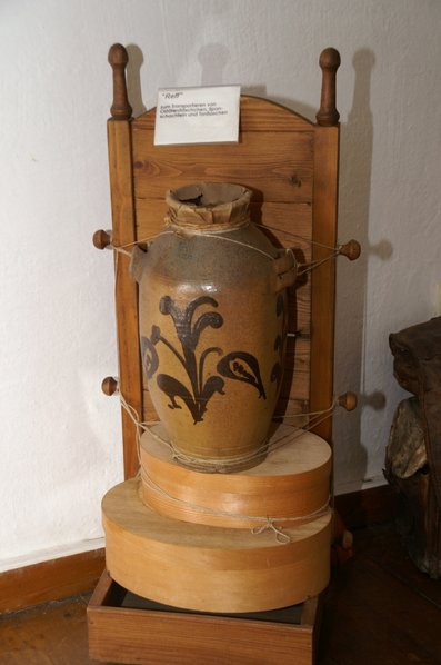 So called "Reff", used by travelling drug stockists ("Buckelapotheker") from the surroundings of Oberweißbach, Germany to distribute medical herbs and essences. Photographed and put under a CC license with kind permission of the Fröbel Museum Oberweißbach, Germany.